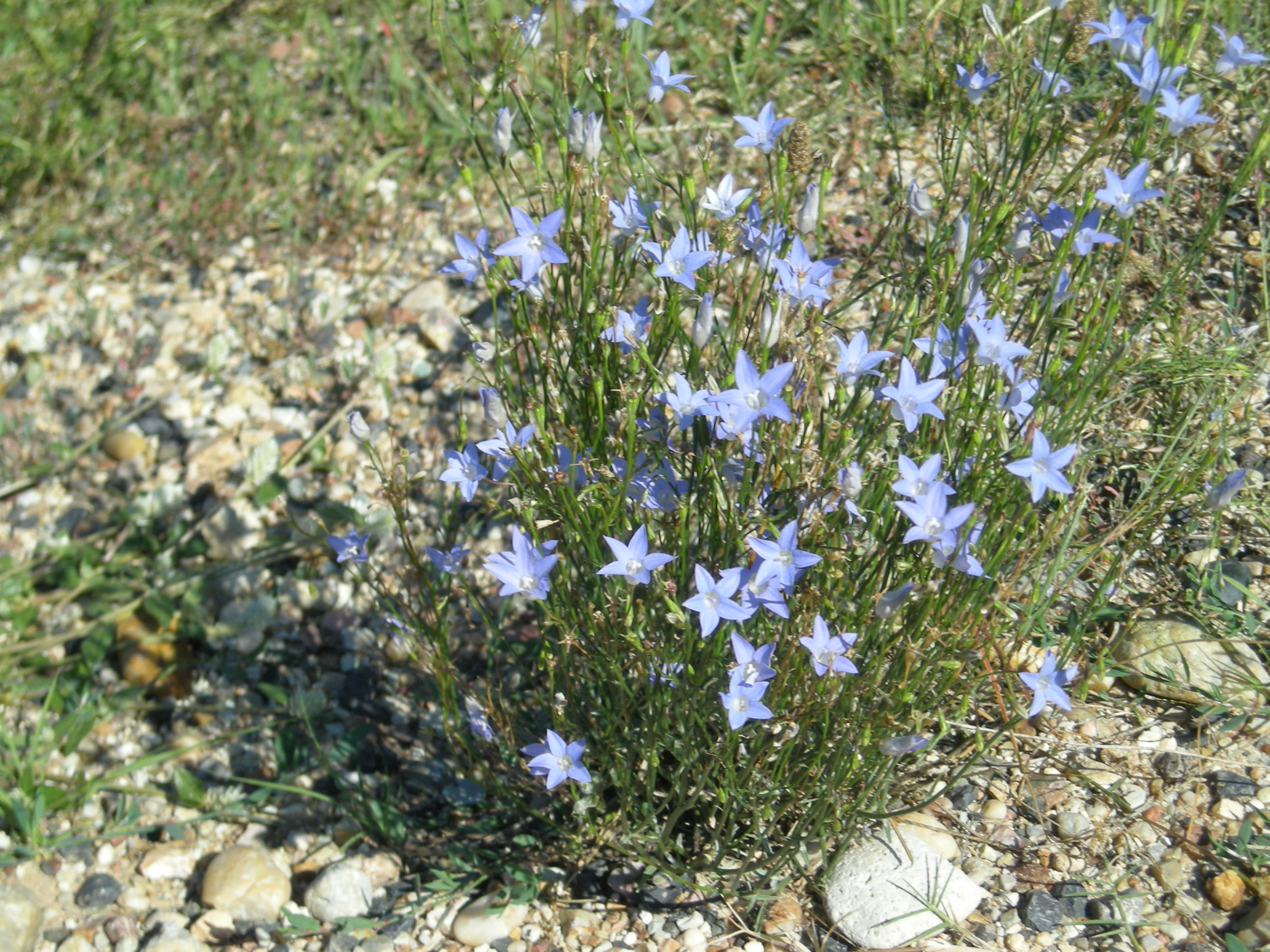 Native, cool season to yearlong green, perennial, hairless to sparsely hairy, tufted herb, 5–75 cm tall. Leaves are alternate, linear throughout or the lowermost oblanceolate; margins are entire or with small callus teeth, and glabrous or sometimes lower leaves sparsely hirsute. Flowerheads are cymes. Flowers have 2–6 mm long sepals, a blue corolla with a 4–9 mm long tube and 6–13 mm long lobes, and a 3-fid style which is not constricted. Capsules are obconic or elongated-obconic, 4–9 mm long and hairless. Flowering can occur throughout year, but is mostly in spring. Widespread in open disturbed sites, particularly along roadsides.